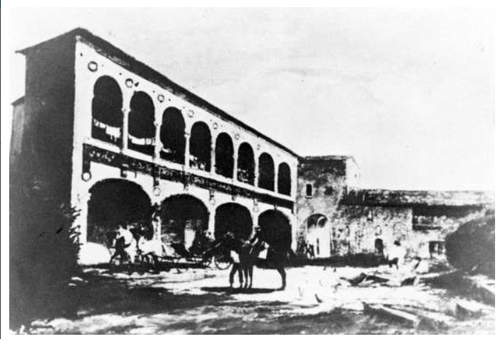 Shot taken around the second half of the XIX century, picturing the old palace built in Ghedi by the General Commander Niccolò III Orsini